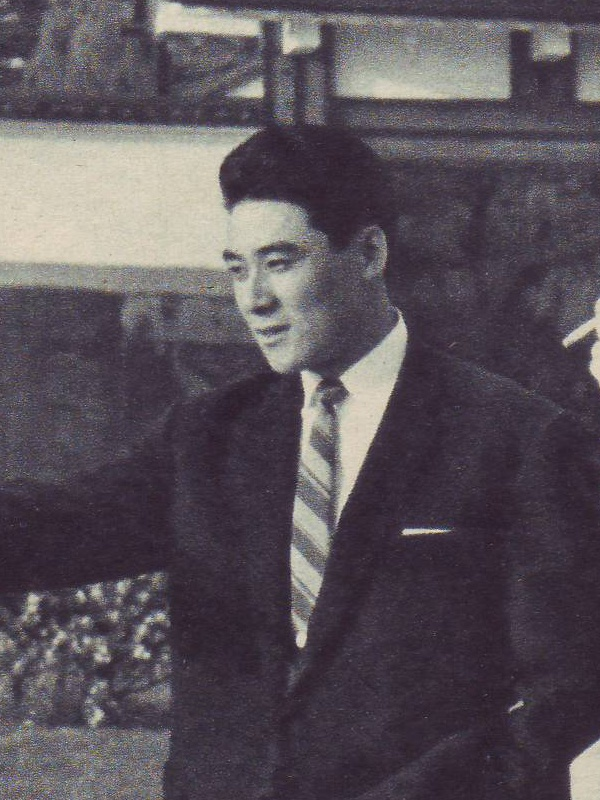 Shojiro Namba (Yomiuri Giants). taken in 1959.